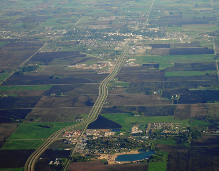 Steinbach and Blumenort as seen from the air while looking from the north. Steinbach is in the upper part of the picture while Blumenort is located on the bottom